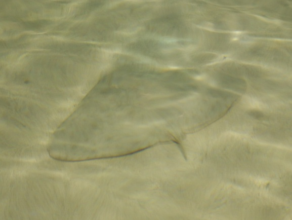 Spiny butterfly ray (Gymnura altavela) at the National Aquarium, Baltimore.